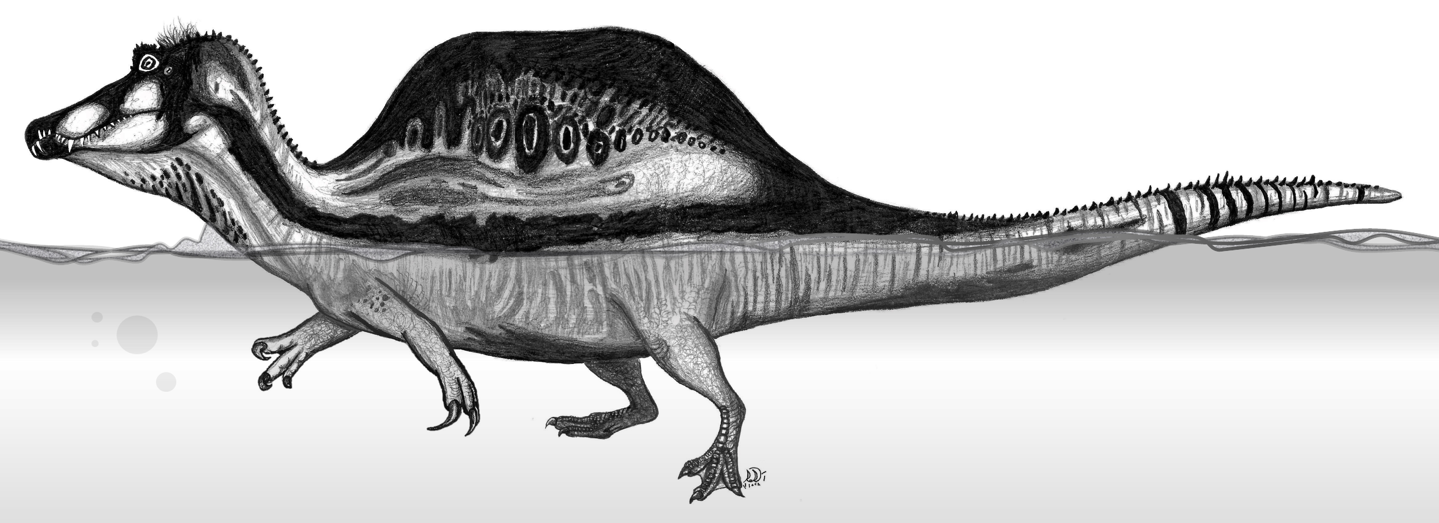 Speculative restoration of the spinosaurine species O. quilombensis floating in water. Based mostly on Ibrahim et al. (2014)'s description of Spinosaurus[1] with the more robust/rounded snout after Kellner et al (2011)[2]